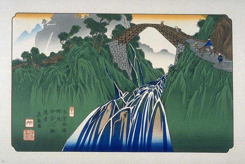 Nojiri on the Kisokaido, ukiyo-e prints by Keisai Eisen